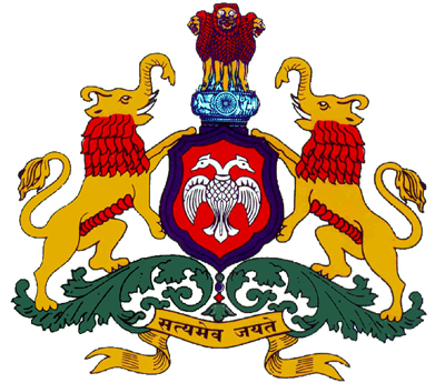 This is the state emblem of Karnataka, India and as such is the official Emblem of Government of Karnataka state in India. The centre is a red shield charged with a white two-headed bird, "Ganda Berunda" and fringed in blue. Crested above it, four red-maned, yellow lions stand back-to-back facing four directions (only three are visible) on a blue circular abacus with a blue frieze carrying sculptures in high relief of a galloping horse on the left, a Dharmachakra in centre, a bull on the right, and the outlines of Dharmachakras on the extreme left and right as part of Sarnath's Ashoka Pillar. The shield is flanked on either side by red-maned, yellow lion-elephant Sharabha supporters (mythical creatures believed to be upholders of righteousness stronger than lions and elephants) standing on a green, leafy compartment. Below the compartment lies written in stylized Devanāgarī, the national motto of India, "सत्यमेव जयते" (Satyameva Jayate, Sanskrit for "Truth Alone Triumphs"). This emblem is adapted from the royal emblem of Mysuru and is carried on all the official correspondences made by Government of Karnataka. Source Image enhanced after obtaining low quality jpeg copy from Karnataka State Horticulture Department. Fair use rationale This image is fair use for Karnataka and Government of Karnataka articles as It is used only for informational purposes and not commercial use. It is directly related to the subject of the articles. It depicts the emblem that is officially associated with the Karnataka government.